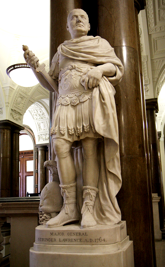 Major-General Stringer Lawrence (6 March 1697 – 10 January 1775), the first Commander-in-Chief, India, regarded as the "Father of the Indian Army". Life-size marble statue sculpted in 1764 by Peter Scheemakers (1691-1781), Foreign and Commonwealth Office, London. The statue is 5 ft 8 inches (172 cms) high and shows him dressed as a Roman general. It was commissioned by the East India Company in 1760 and is inscribed on the front: "Major General Stringer Lawrence. A.D. 1764" and on the side: "P. Scheemakers Ft". ( A drawing of the statue was published in Neill, J.G.S., Historical Record of the First Madras European Regiment, London, 1843, p.205.